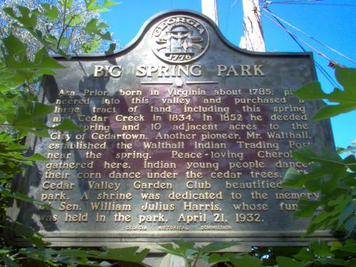 This sign stands at the northeast corner of Big Spring Park in Cedartown. The sign reads: BIG SPRING PARK Asa Prior, born in Virginia about 1785, pioneered into this valley and purchased a large tract of land including this spring and Cedar Creek in 1834. In 1852 he deeded the spring and 10 adjacent acres to the City of Cedartown. Another pioneer, Mr. Walthall, established the Walthall Indian Trading Post near the spring. Indian young people danced their corn dance under the cedar trees. Cedar Valley Garden Club beautified the park. A shrine was dedicated to the memory of Sen. William Julius Harris, whose funeral was held in the park, April 21, 1932. 115-6 Georgia Historical Commission This picture was taken by Karl Ward on 9 September 2004. Copyright 2004 Karl Ward. Big Spring Park (GHM 115-6) Captioned As {}